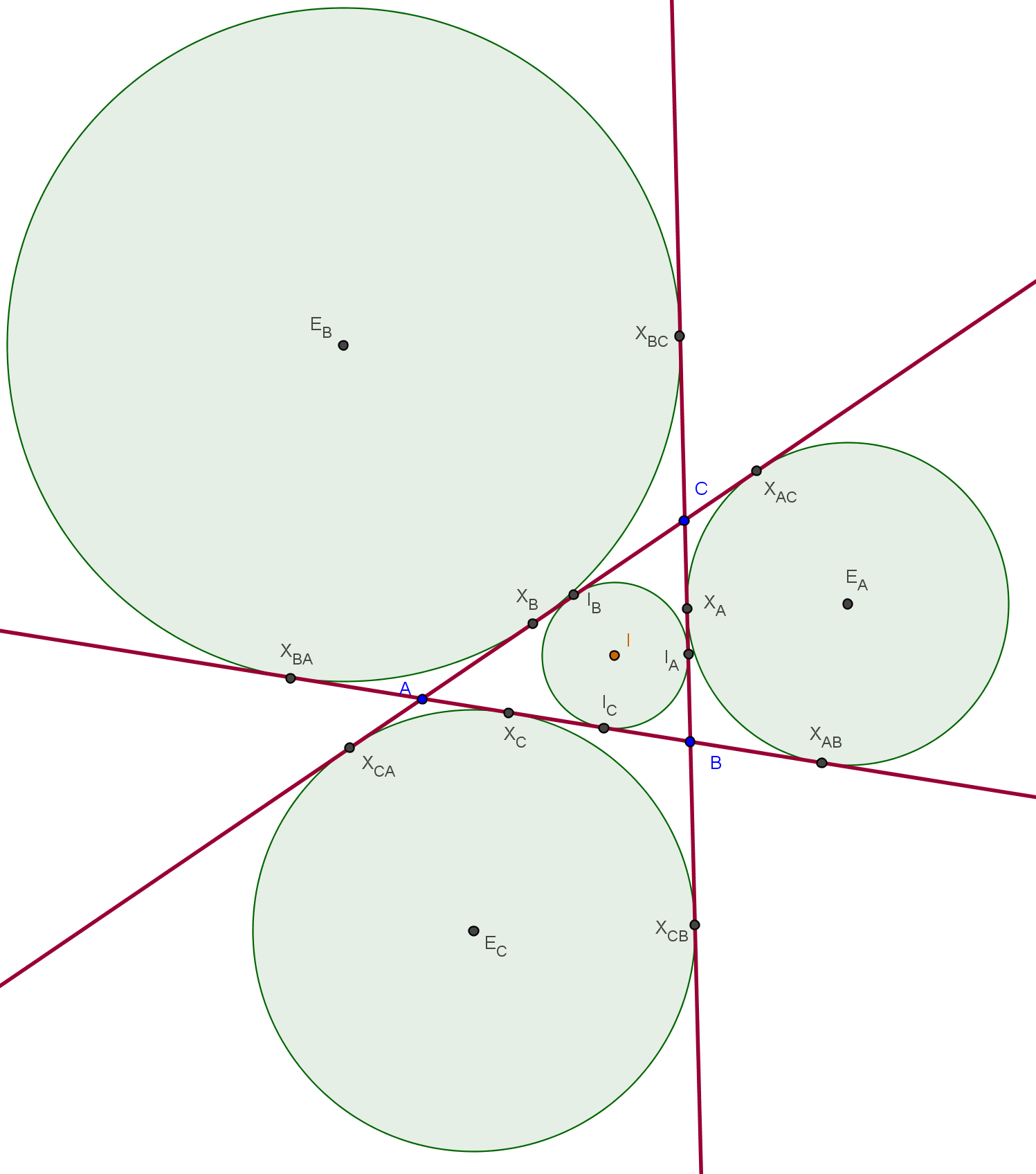 Incircle and excircles